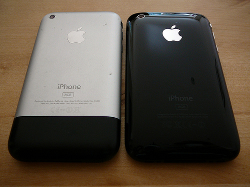 See related blog post